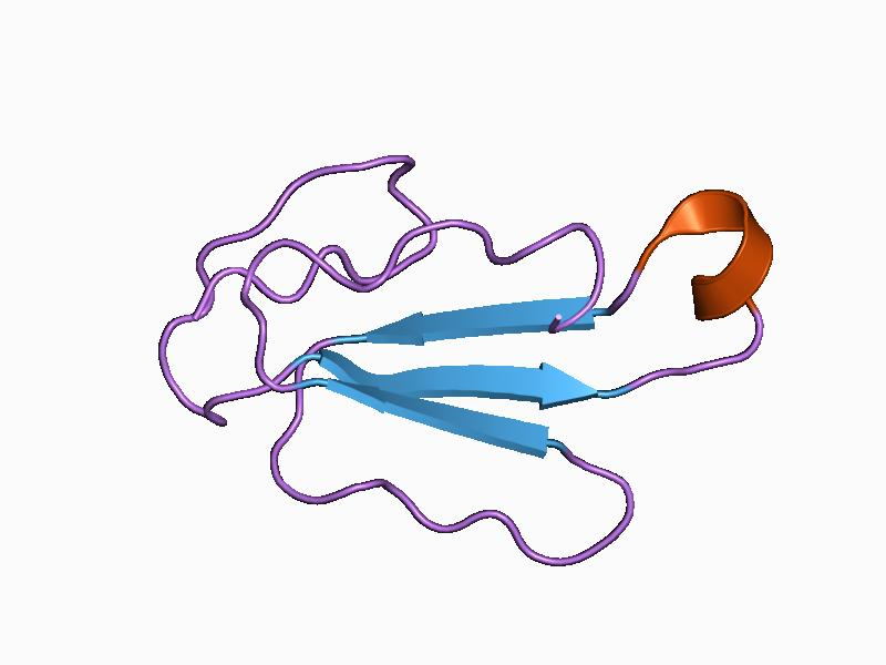 Cartoon representation of the molecular structure of protein registered with 1ctx code.